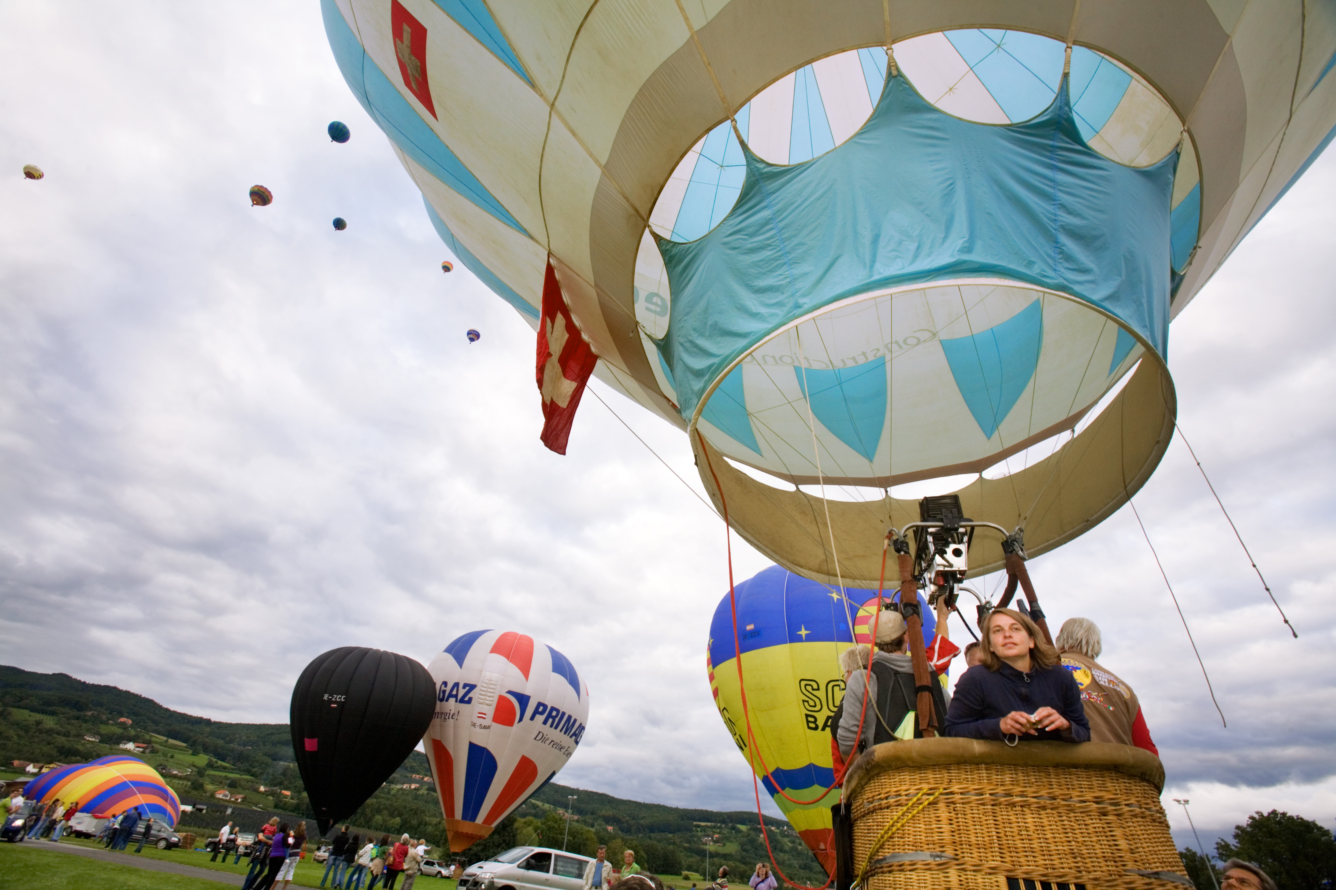 Hot Air Balloon Festival - Primagaz Ballonweek Stubenberg am See, Austria 2009